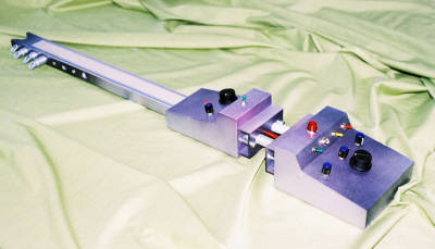 This is the first AxeSynth model that was produced in the winter of 2004.